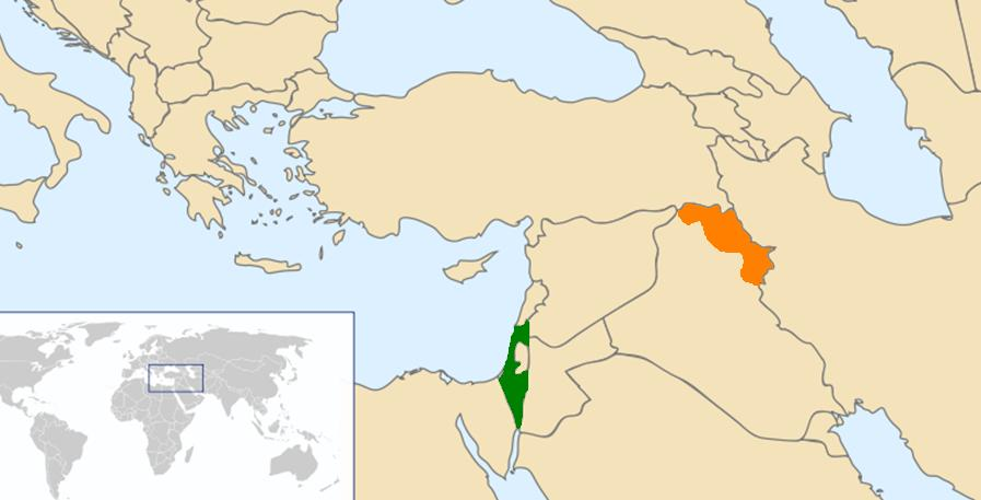 Map indicating locations of Israel and Iraqi Kurdistan.